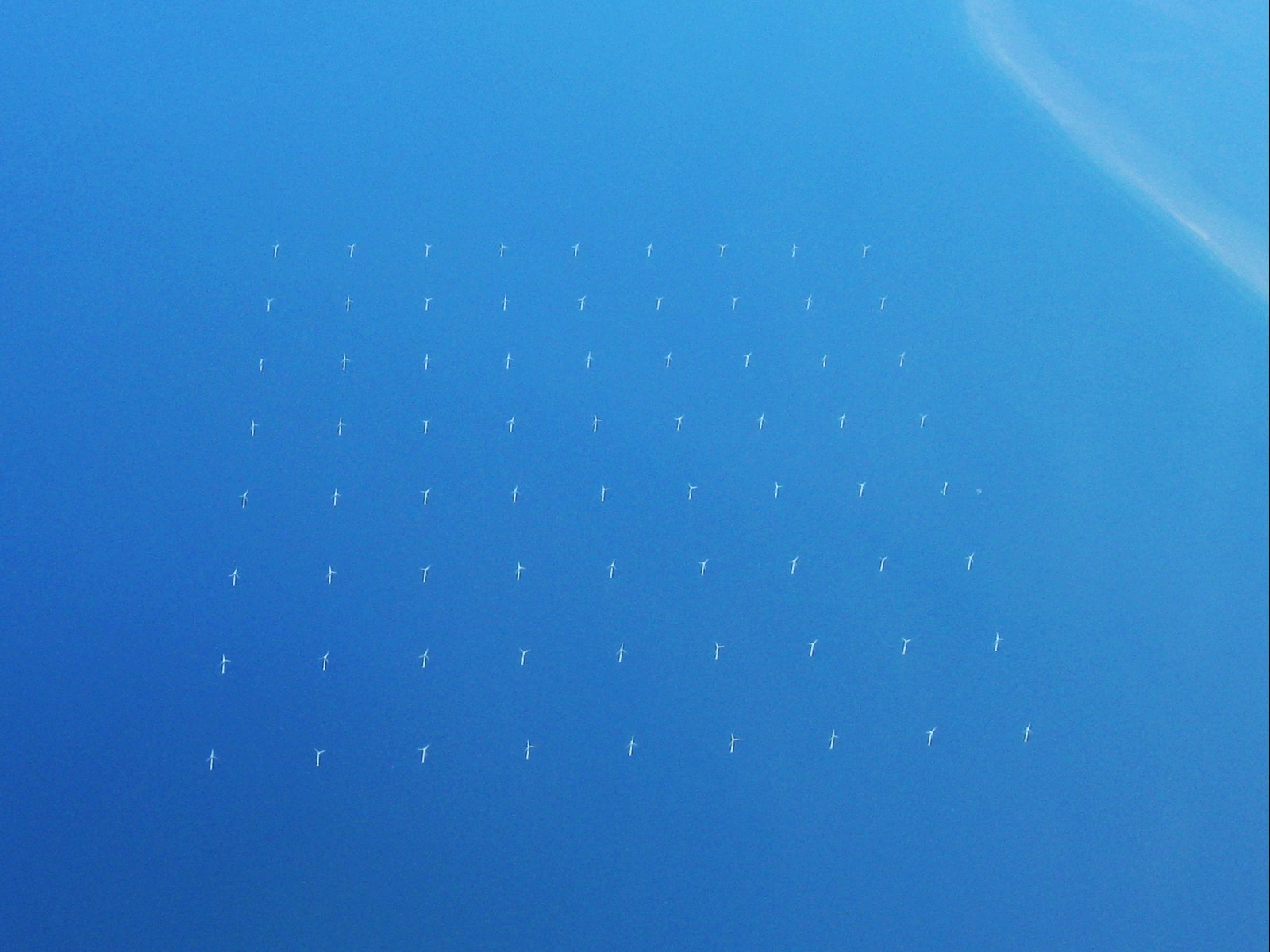 Offshore-Windpark Nysted, Denmark